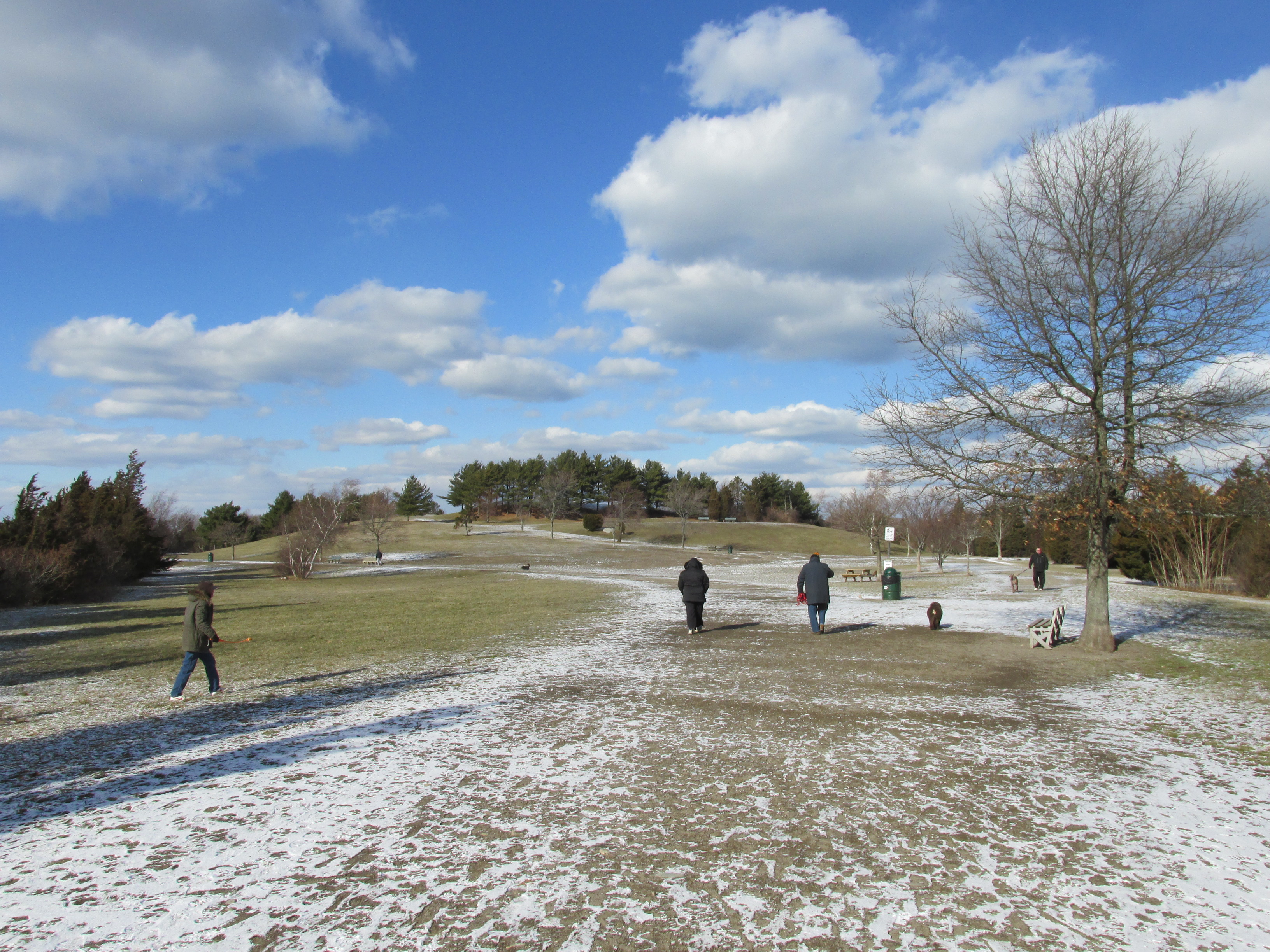 Stodders Neck, Weymouth Back River Reservation, Hingham Massachusetts